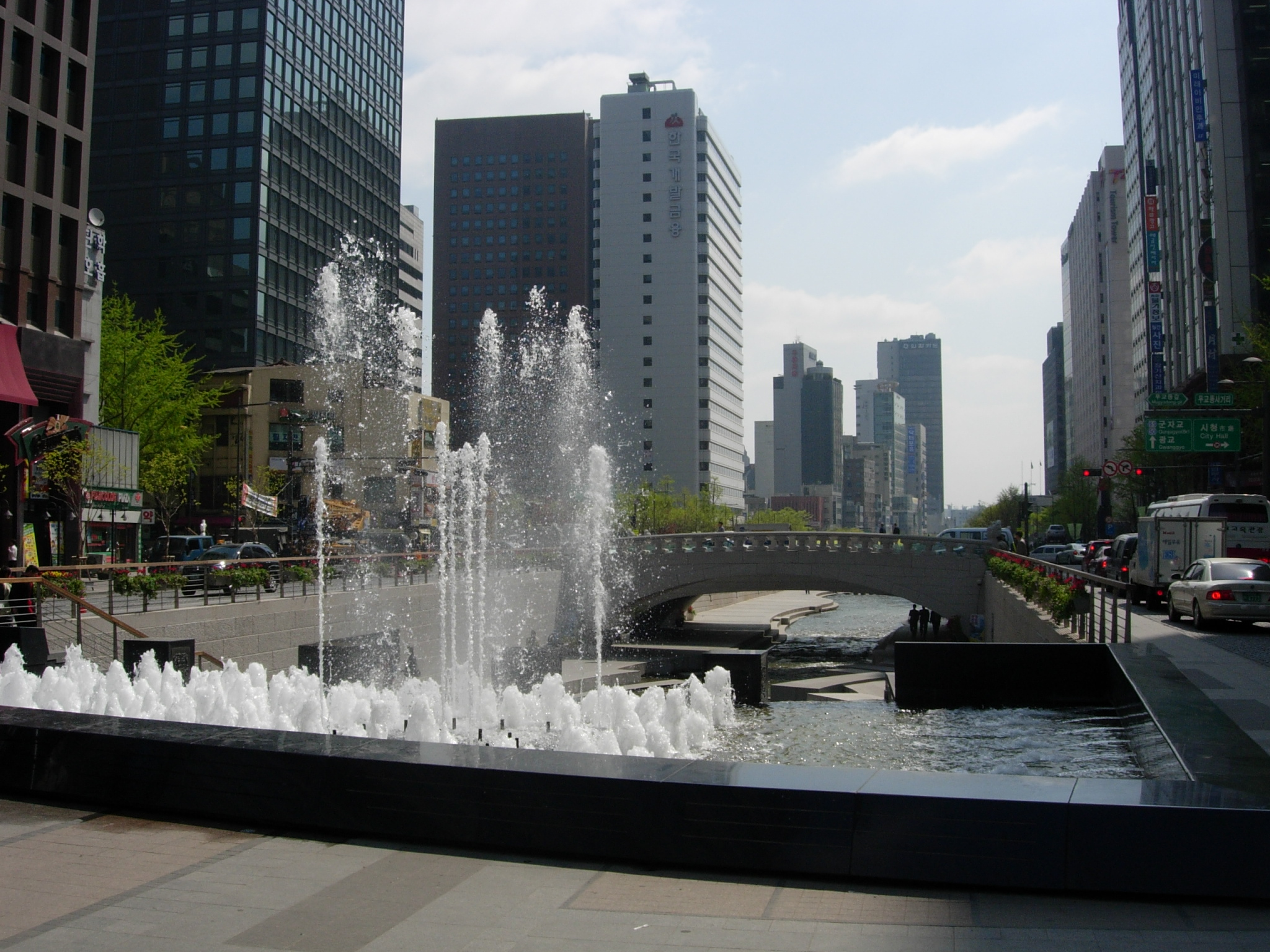 Cheonggyecheon, Seoul, South Korea